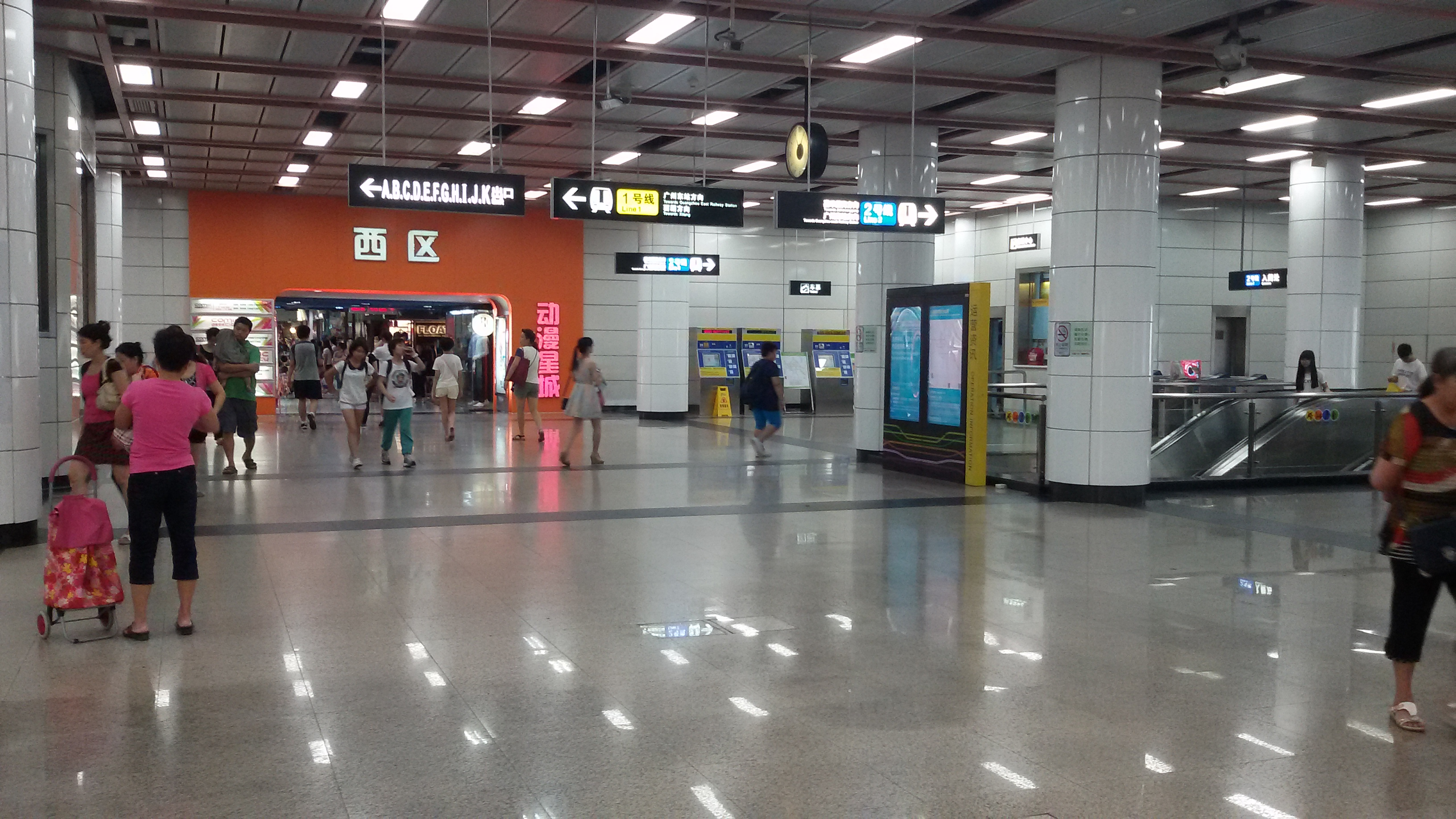 NORTHERN CONCOURSE for Gongyuanqian Station in Guangzhou Metro.